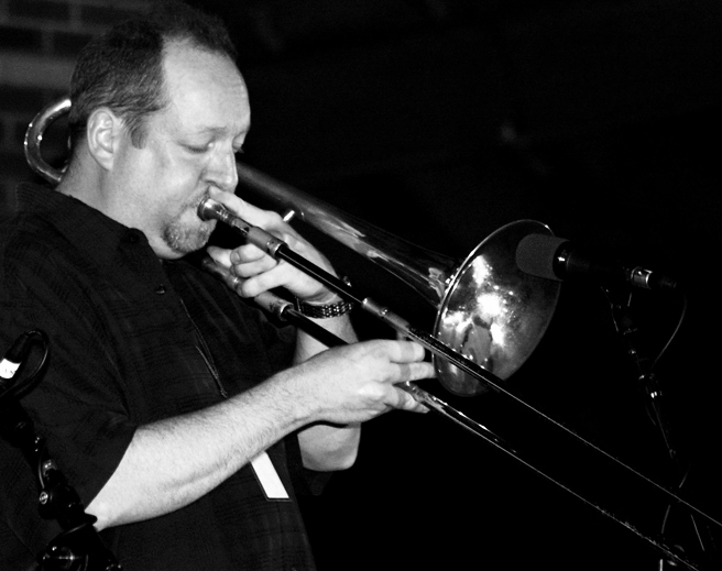 Trombonist Steve Davis performs at the 2007 Hartford Jazz Festival.